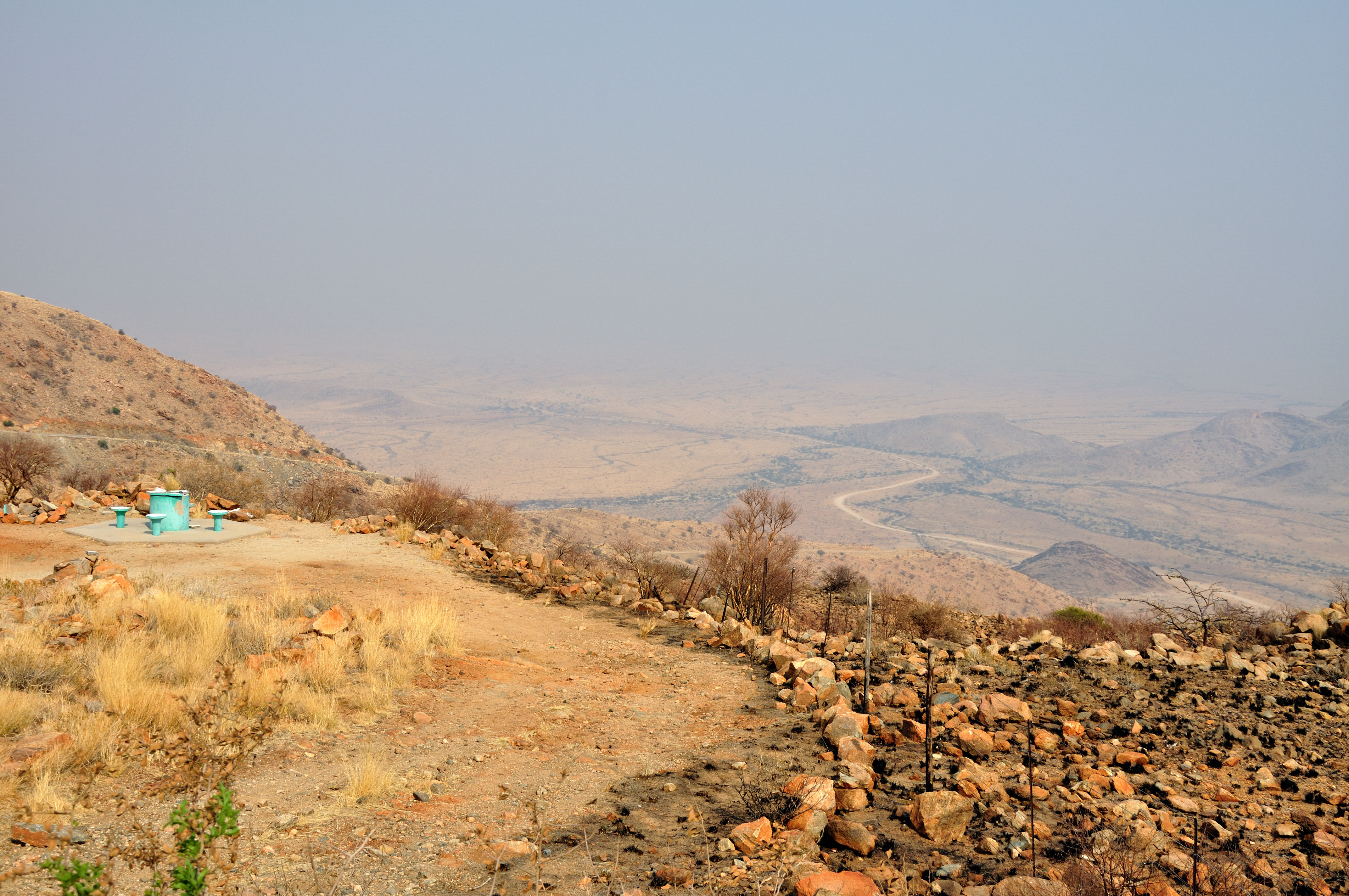 Namibia, travelling on D1275 across Spreetshoogte Pass on a hazy day.